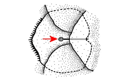 Median lateral line of Gvozdarus svetovidovi, 2nd known specimen: female, 613 mm TL, 515 mm SL, 21 Januray 1988, Enderby Land, Antarctica (described in: Shandikov G.A. & Kratkiy V.Y. (1990). Journal of Ichthyology. 30(8). P. 143-147